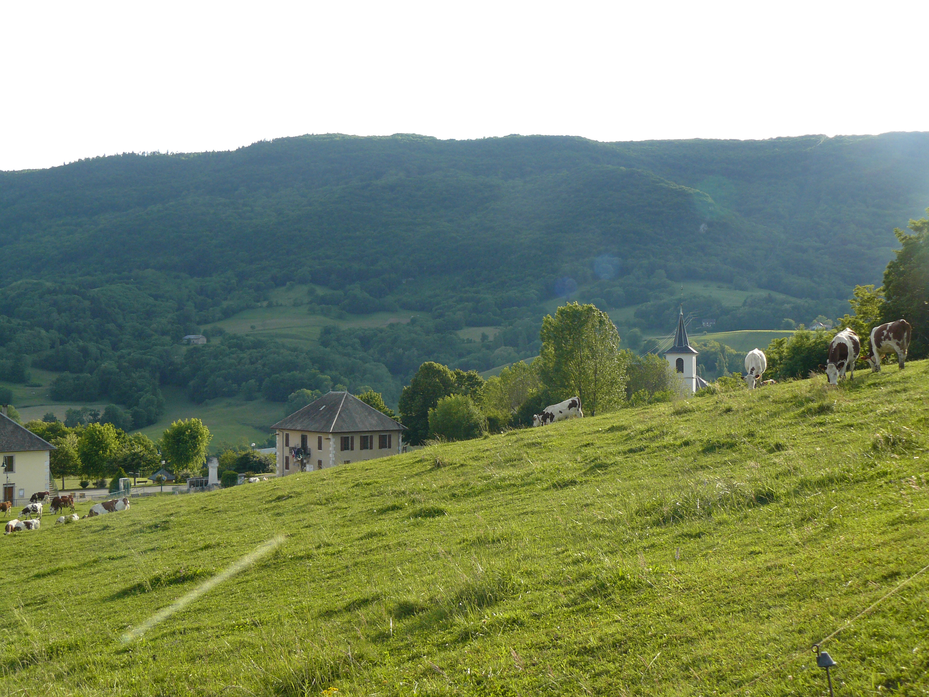 Mairie et église de la commune de Moye depuis la route qui mène au cimetière